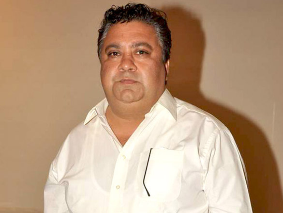 Manoj Pahwa at the promo launch of 'Chala Mussaddi - Office Office'